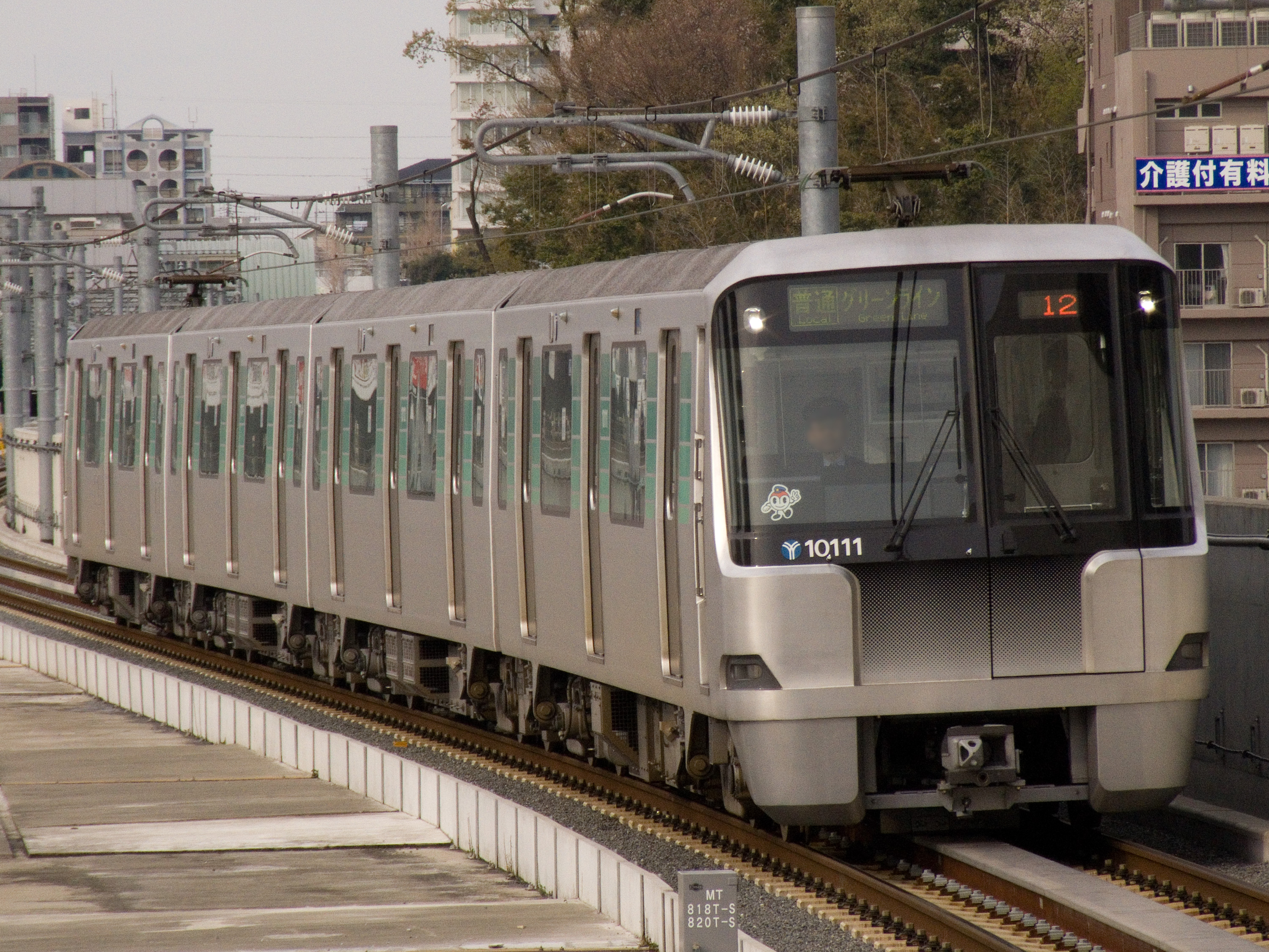 10000 series EMU set number 11 on the Yokohama Municipal Subway Green Line